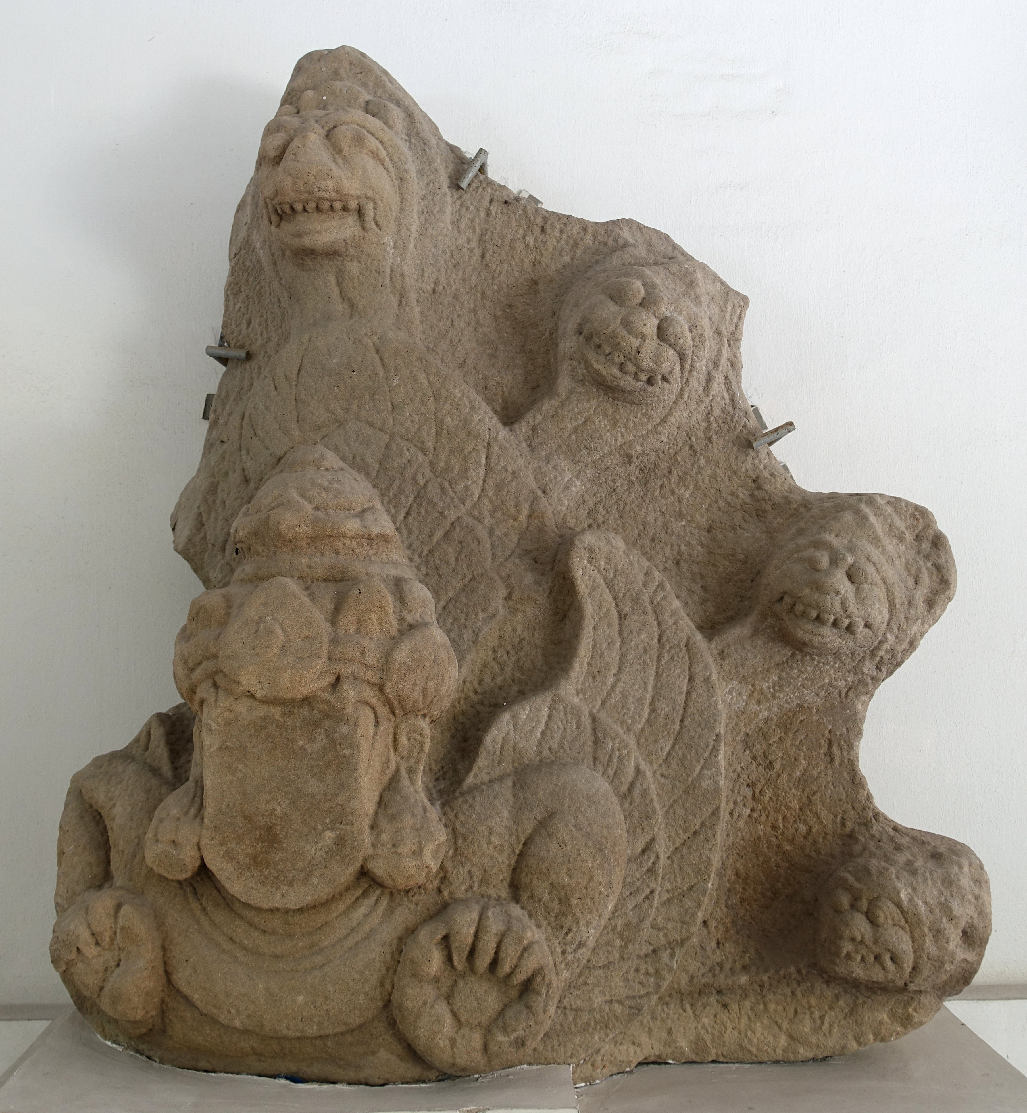 Cham sculpture at the Museum of Cham Sculpture, Da Nang, Vietnam. This artwork is in the public domain because the artist died more than 70 years ago.